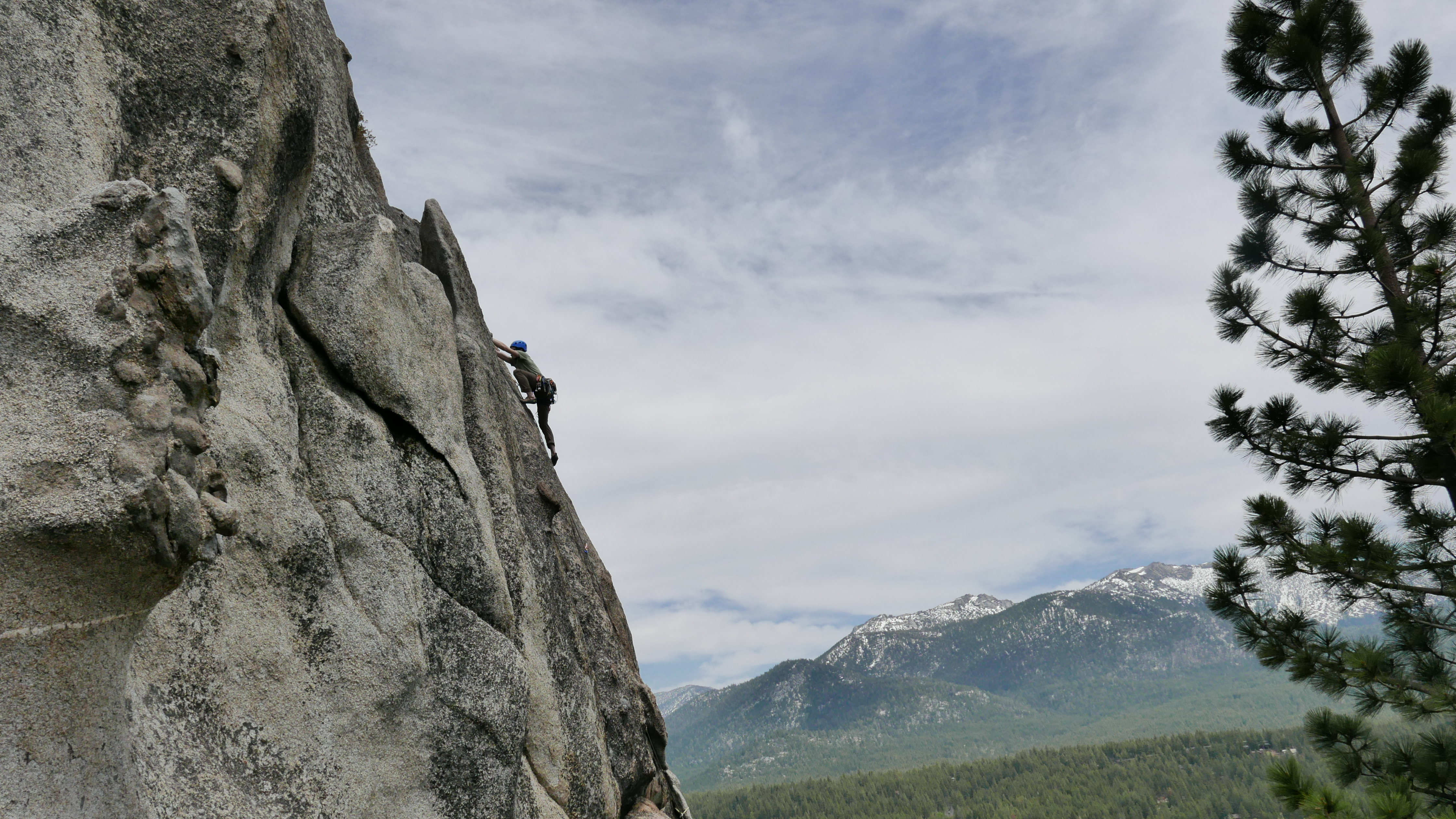 The view from "lunch rock" at Pie Shop climbing area in Meyers outside South Lake Tahoe, California.